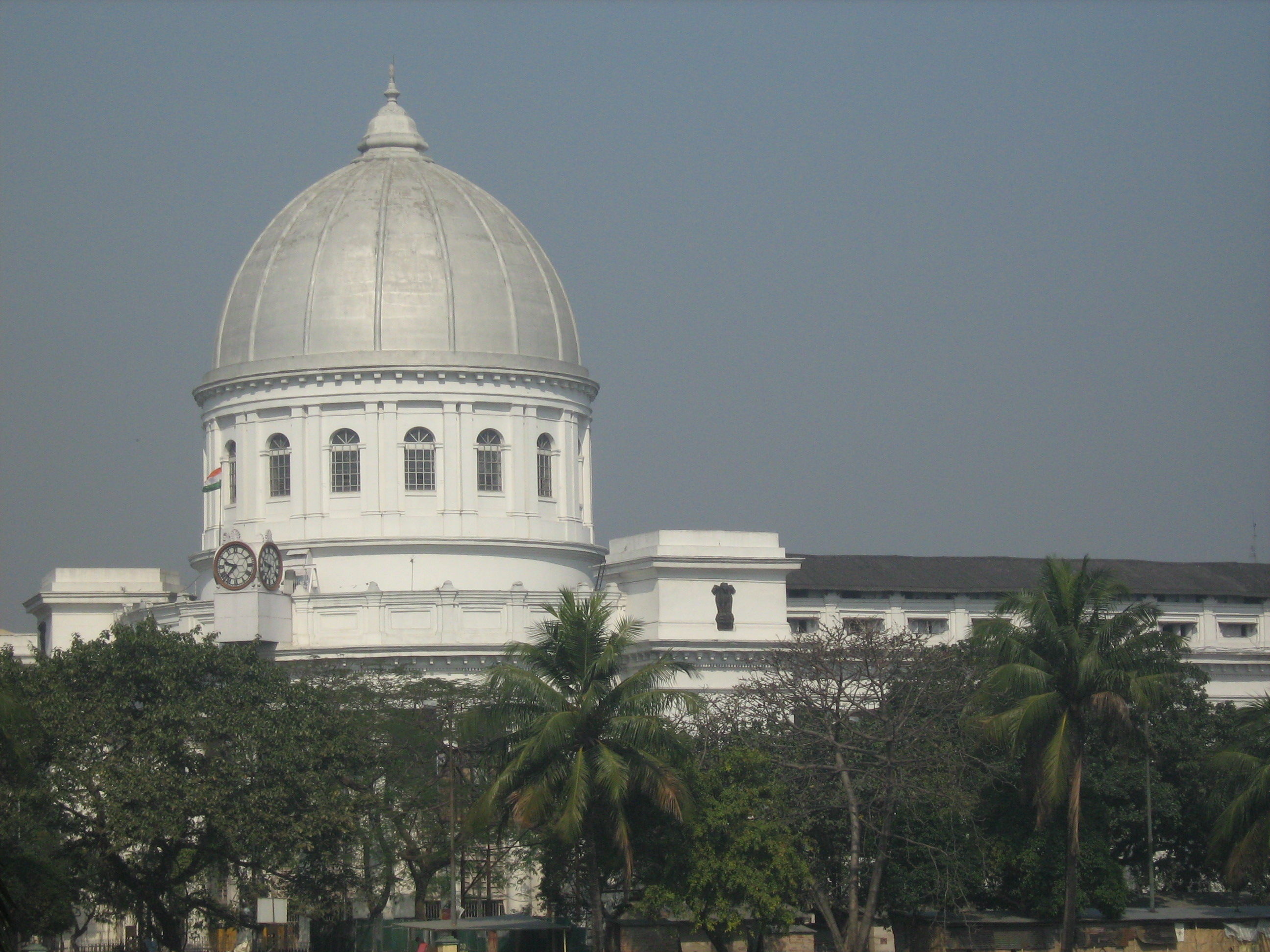 This is the General Post Office of Kolkata, in the Indian state of West Bengal